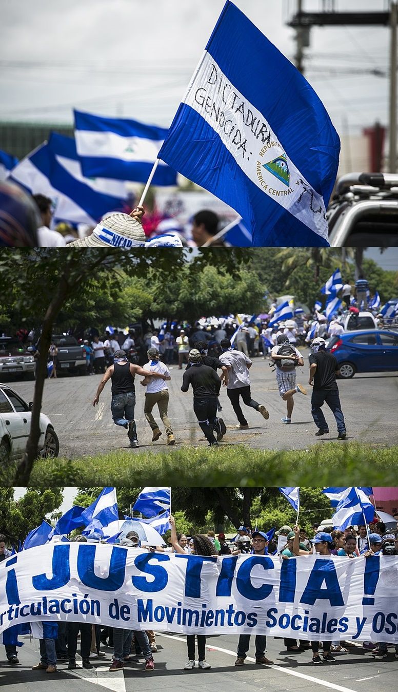 Mobilizations and protests in Nicaragua against the Ortega government.